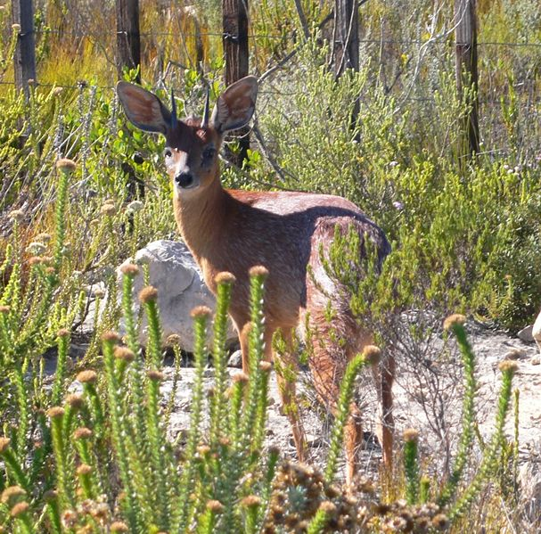 Cape grysbok (ram) in fynbos vegetation at De Hoop, Western Cape, South Africareuploading my image from De Hoop, SA, Feb 2007 under correct species name